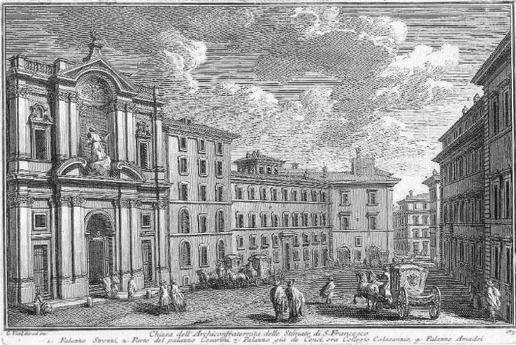 1) Palazzo Strozzi; 2) Palazzo Cesarini; 3) Collegio Calasanzio, once Palazzo Cenci; 4) Palazzo Amadei.